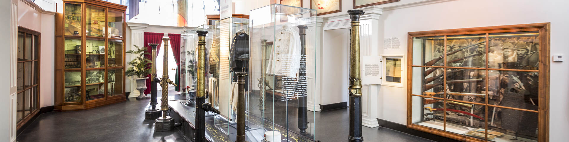 Arnhem, 14 februari 2018 fotografie tbv website Museum Bronbeek Overzicht zaal 2 vaste tentoonstelling